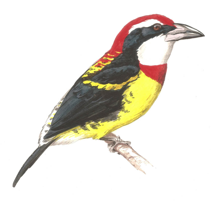 Scarlet-banded Barbet (Capito wallacei) - Watercolor, Romain Risso.